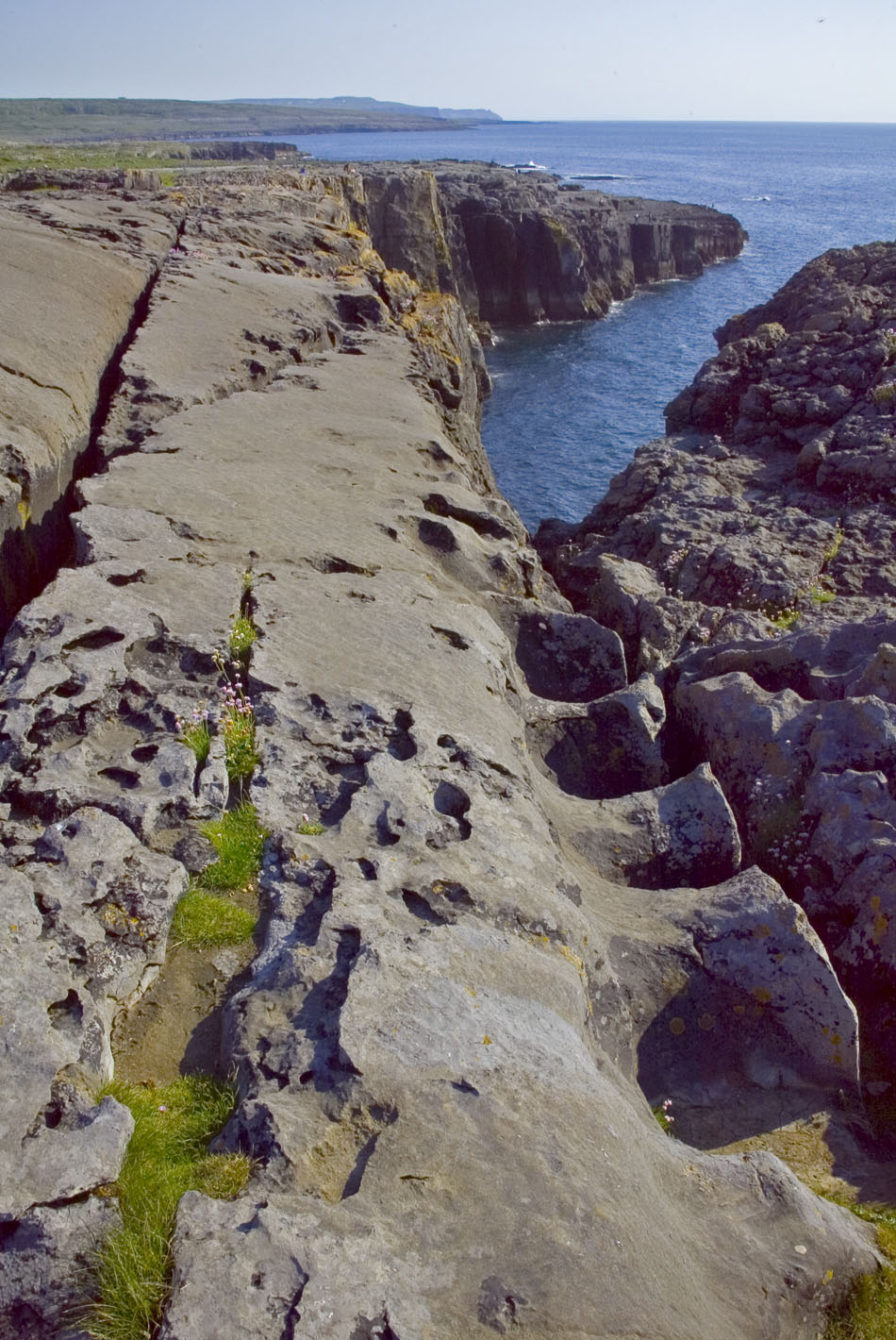 Photograph standing on the edge of the Ailladie sea-cliffs (also called Ballyreen cliffs), looking south into the Falla Uaigneach section (southern end of Ailladie).